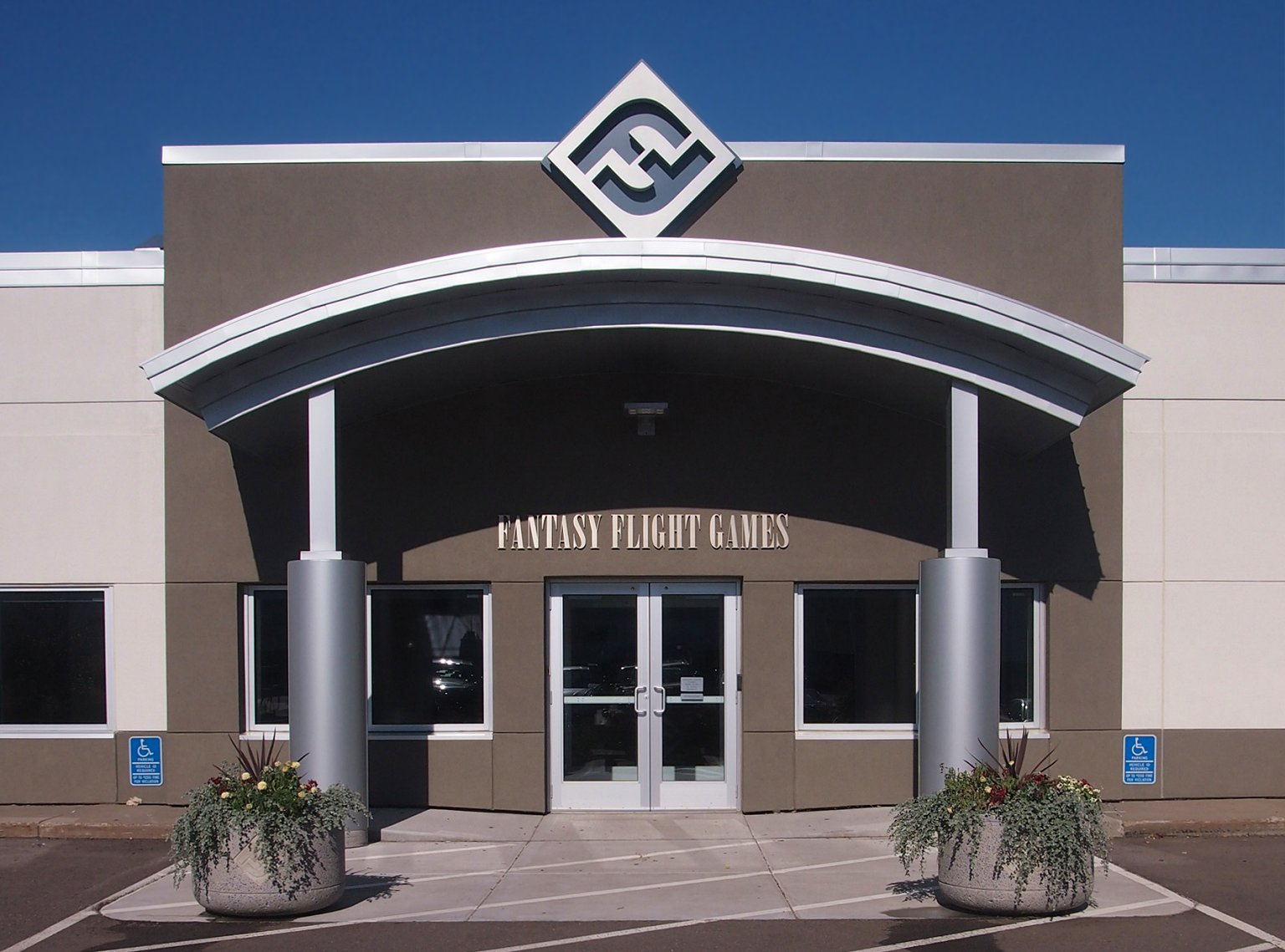 Main entrance of Fantasy Flight Games, 1995 County Road B2 West, Roseville, Minnesota, USA. Viewed from the east.